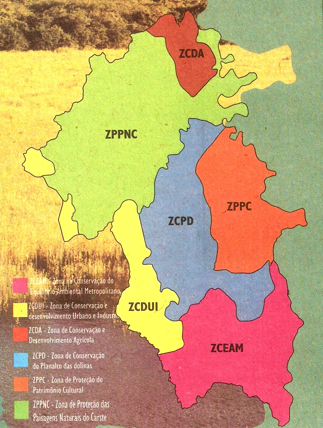 Digitalizar0002APA.jpg